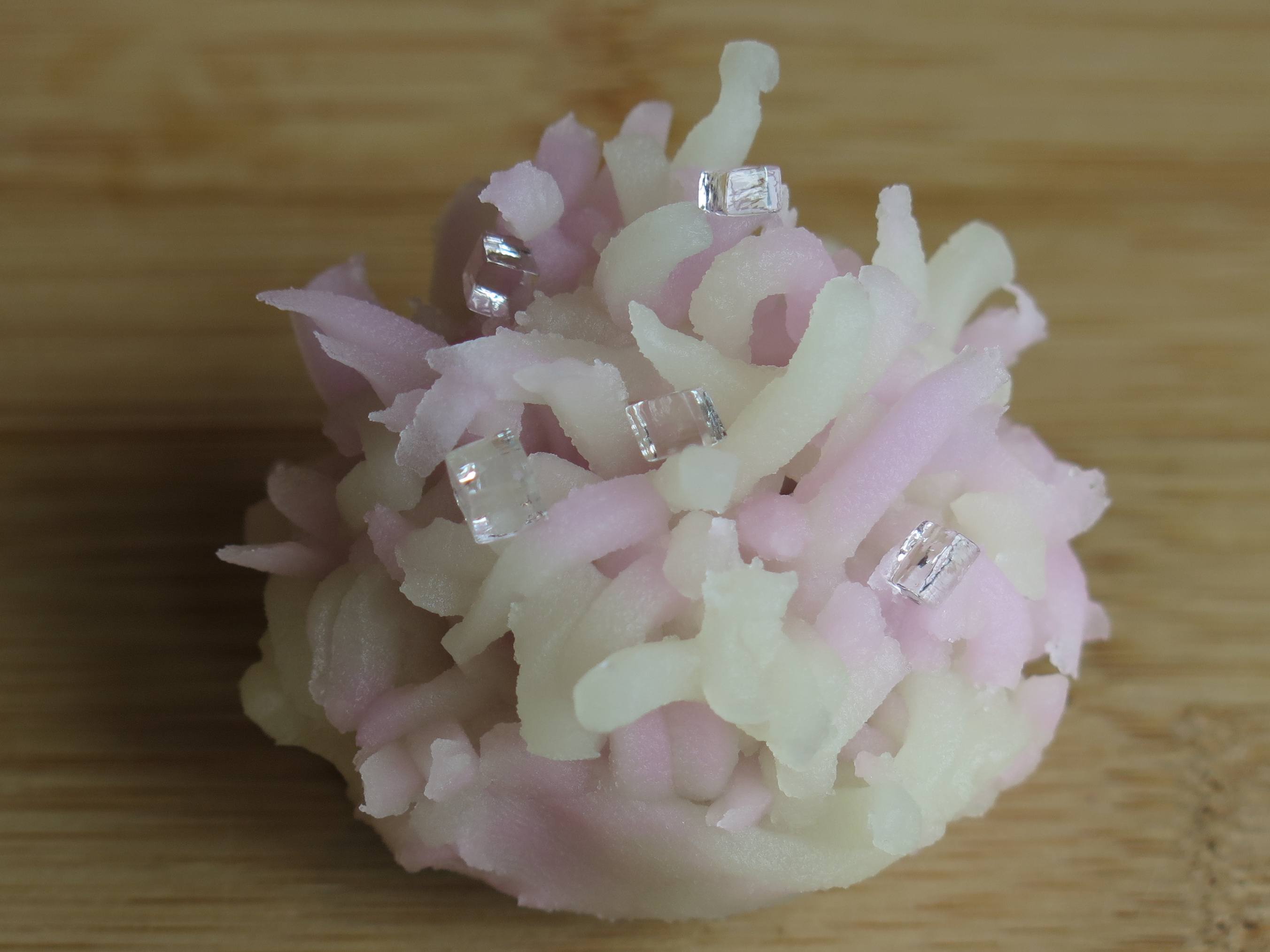 Japanese sweet in the shape of a rose.